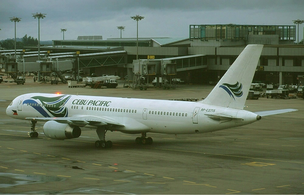 Cebu Pacific Air Boeing 757-200